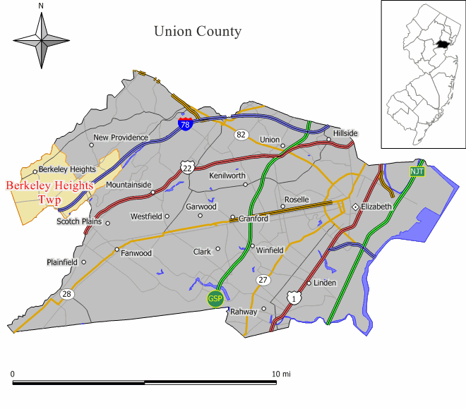 Locator map of Berkeley Heights in Union County, New Jersey